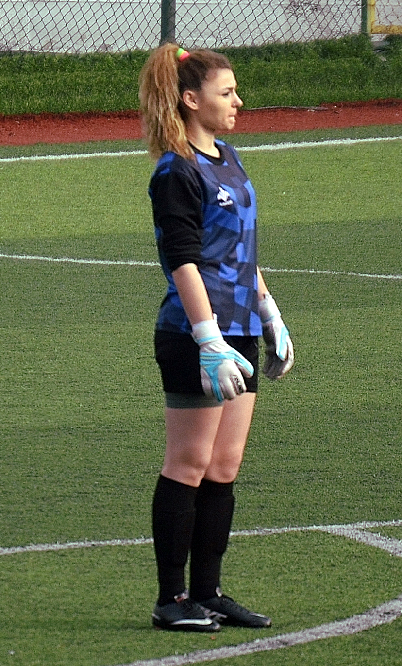 Selda Akgöz playing for Trabzon İdmanocağı (women) in the 2014-15 away match against Ataşehir Belediyespor